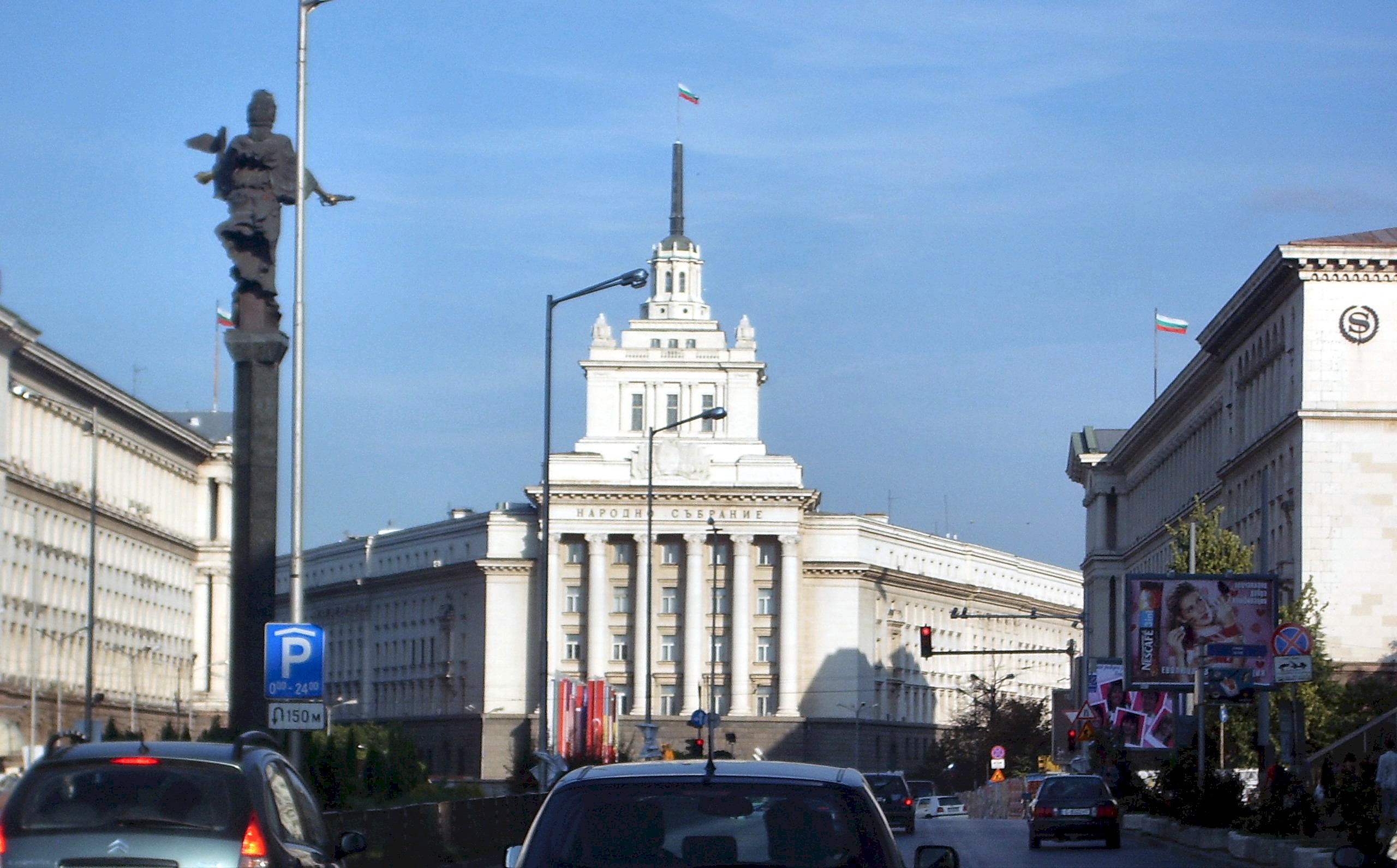 The largo in Sofia, Bulgaria. The Party House is en face, TZUM is at the left, the President's office is at the right.